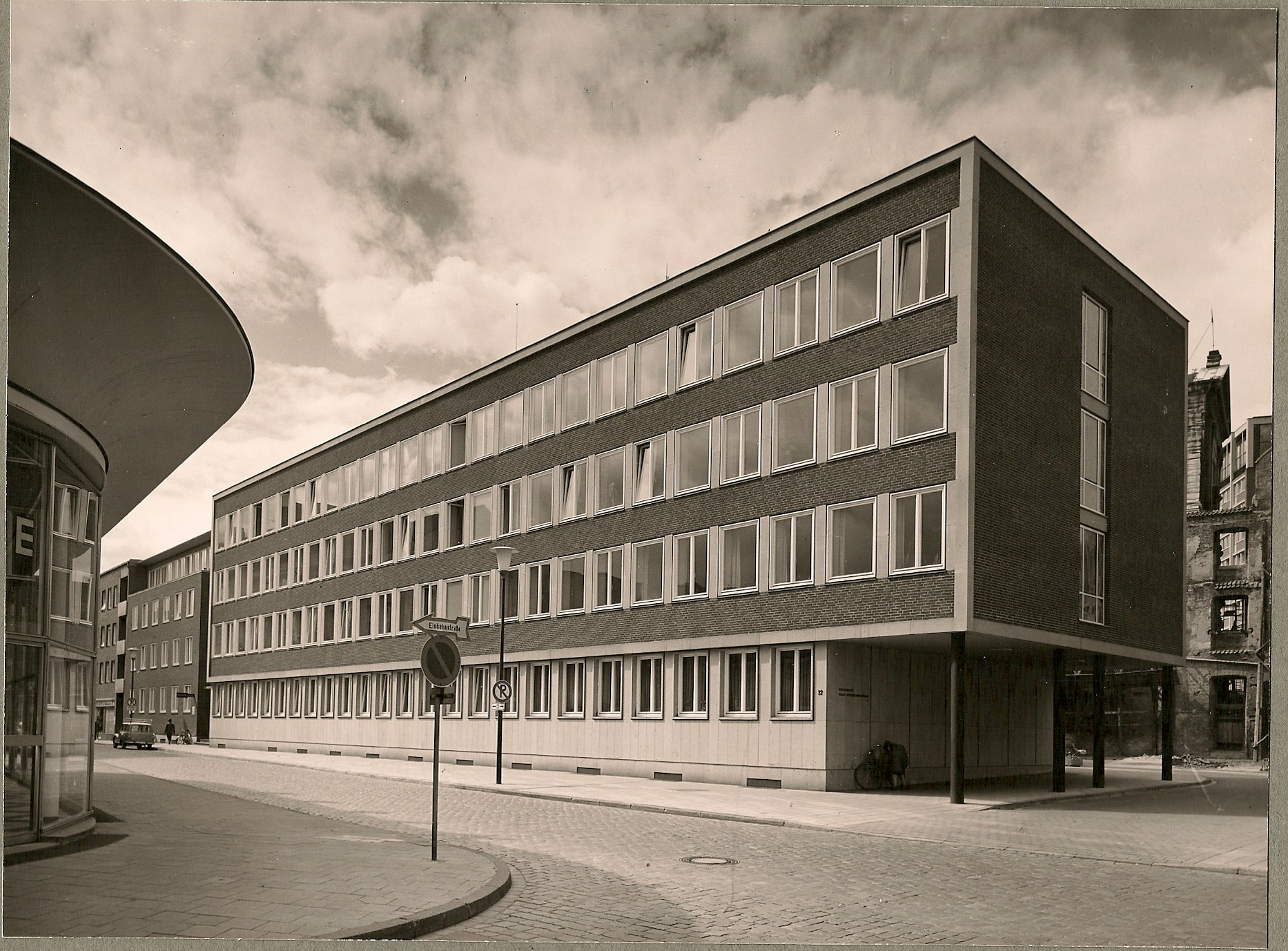 Staatshochbau in der kriegszerstörten Altstadt von Münster (Westfalen)